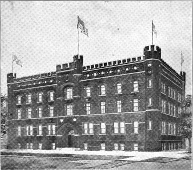 The NRHP-listed Saginaw Armory, sometime between about 1909 and 1918.